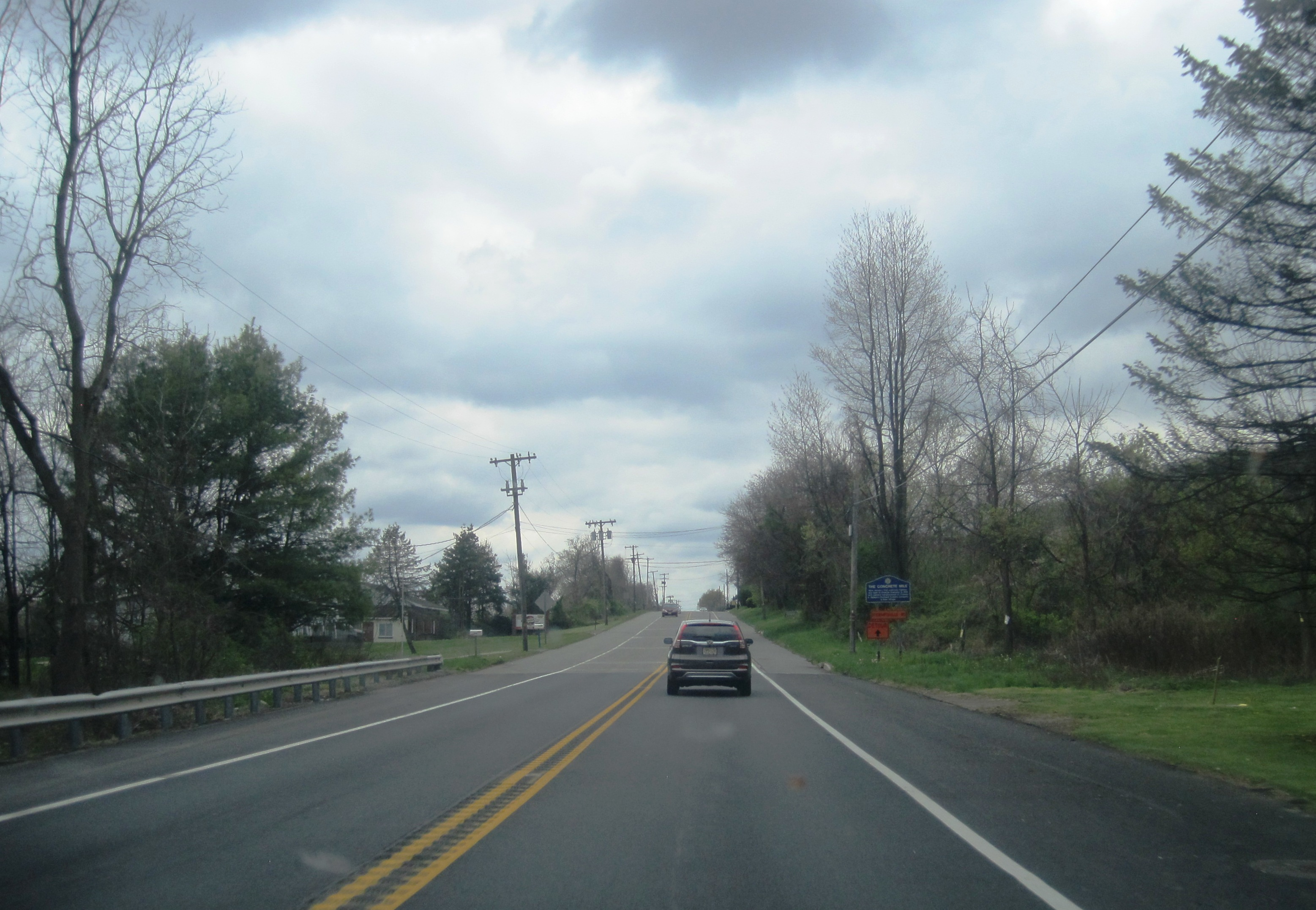 Photo showing New Jersey Route 57 westbound in Franklin Township, Warren County, New Jersey. The highway ahead of this location (approaching the Greenwich Township line) is part of the "Concrete Mile," a portion of the first concrete road ever built in New Jersey and has some original concrete still in use.